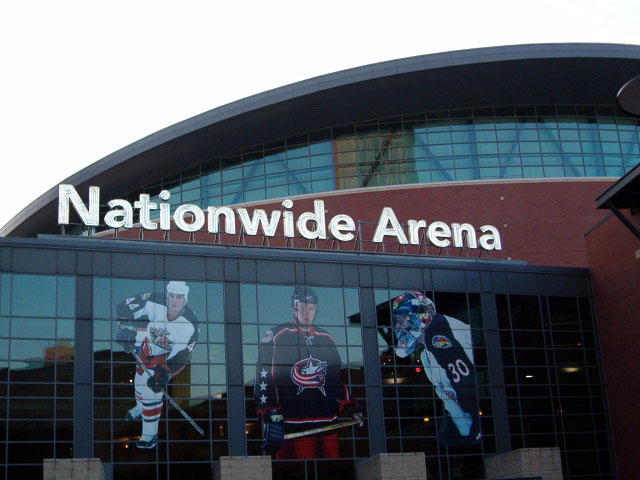 Nationwide Arena in Columbus, Ohio.